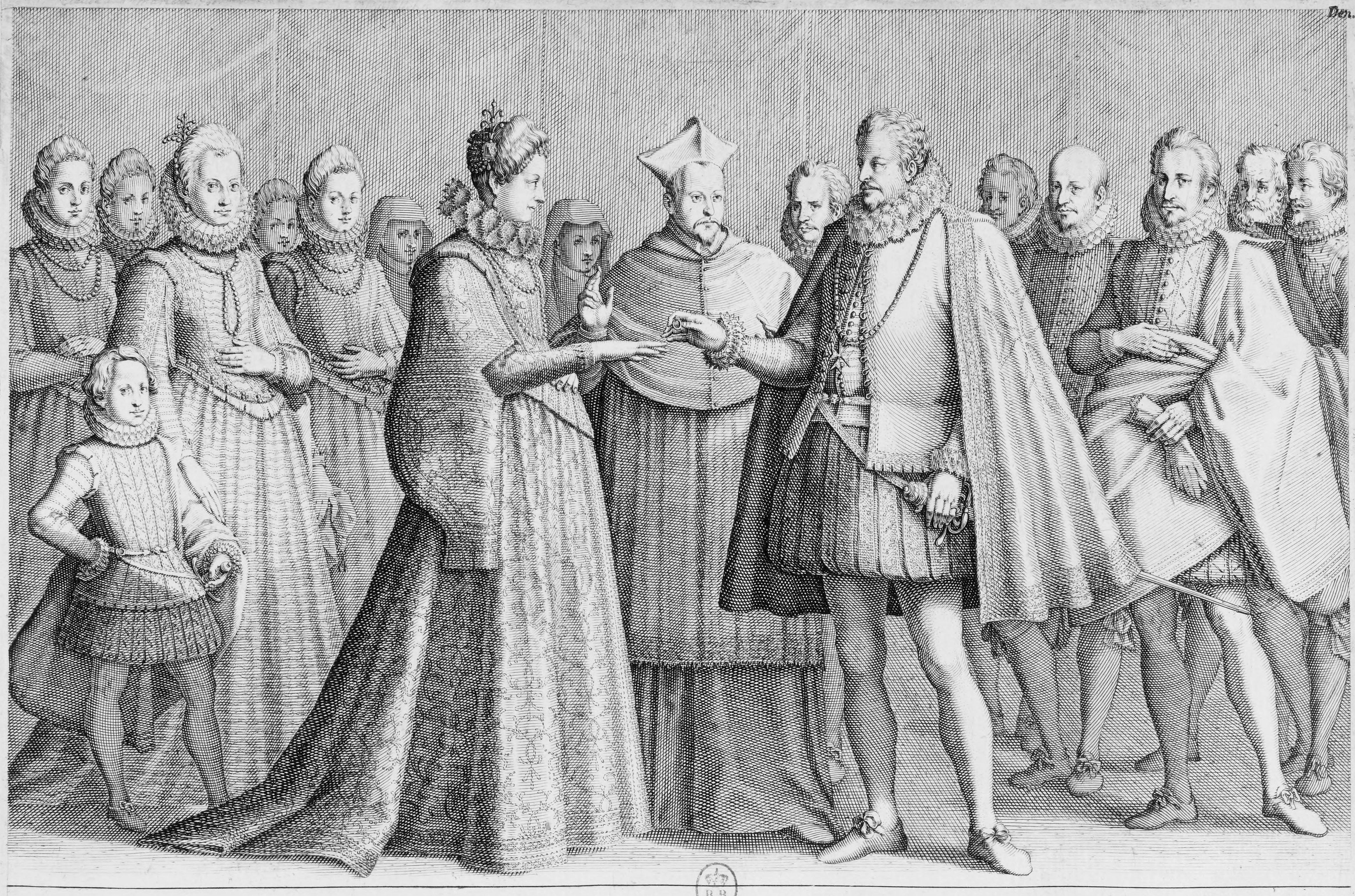 The Marriage of Ferdinand de' Medici and Christine of Lorraine